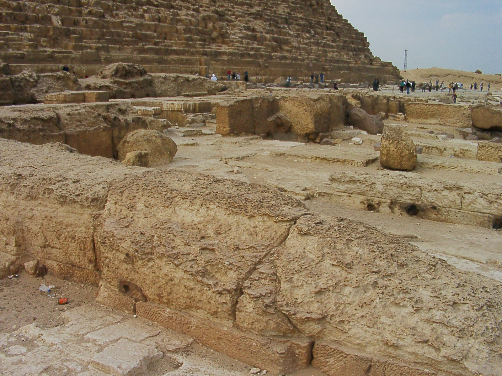 Khafre's statue chambers at his mortuary temple. Five storage rooms are visible behind.